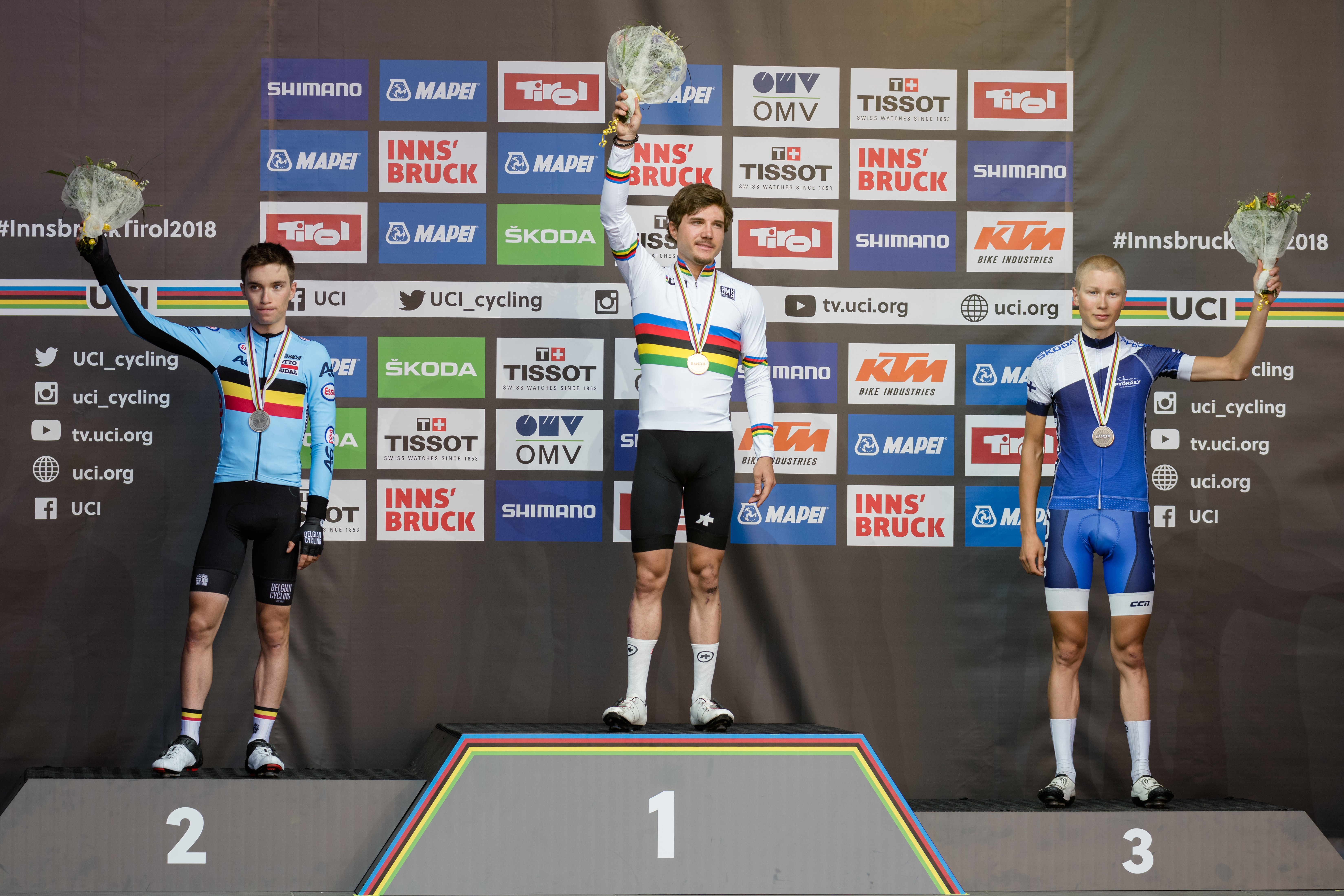 2018 UCI Road World Championships Innsbruck/Tirol Men under 23 Road Racel. Picture shows: Award Ceremony with Bjorg Lambrecht of Belgium, winner Marc Hirschi of Switzerland and Jaakko Hanninen of Finland